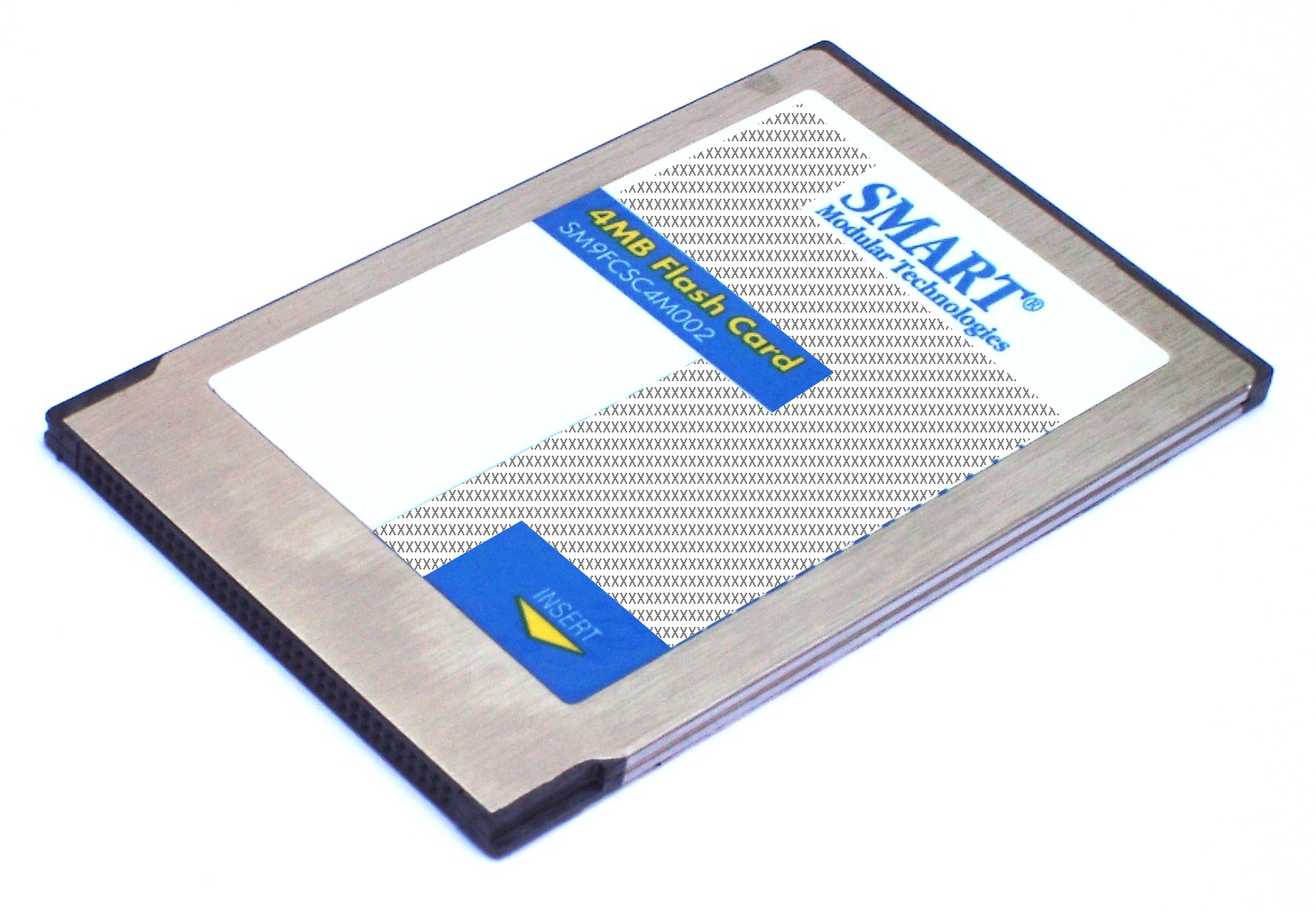 4MB PCMCIA linear flash memory card. --Part of this image was modified in order to remove copyrighted parts of the image.